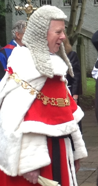 Sir John Thomas, Baron Thomas of Cwmgiedd at the Legal Service of Wales, 13 October 2013.